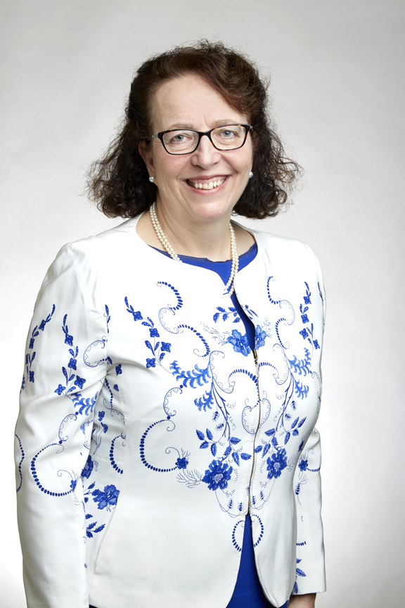 Ingrid Scheffer is an Australian paediatric neurologist and senior research fellow at the Florey Institute of Neuroscience and Mental Health Attribution: The Royal Society